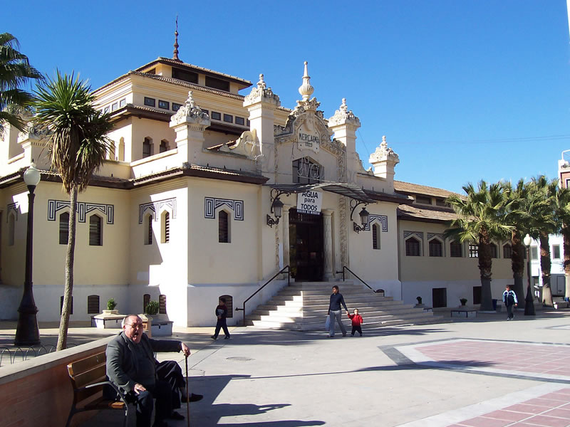 Food Market of Cieza